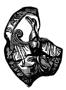 Otto VIII of Wittelsbach